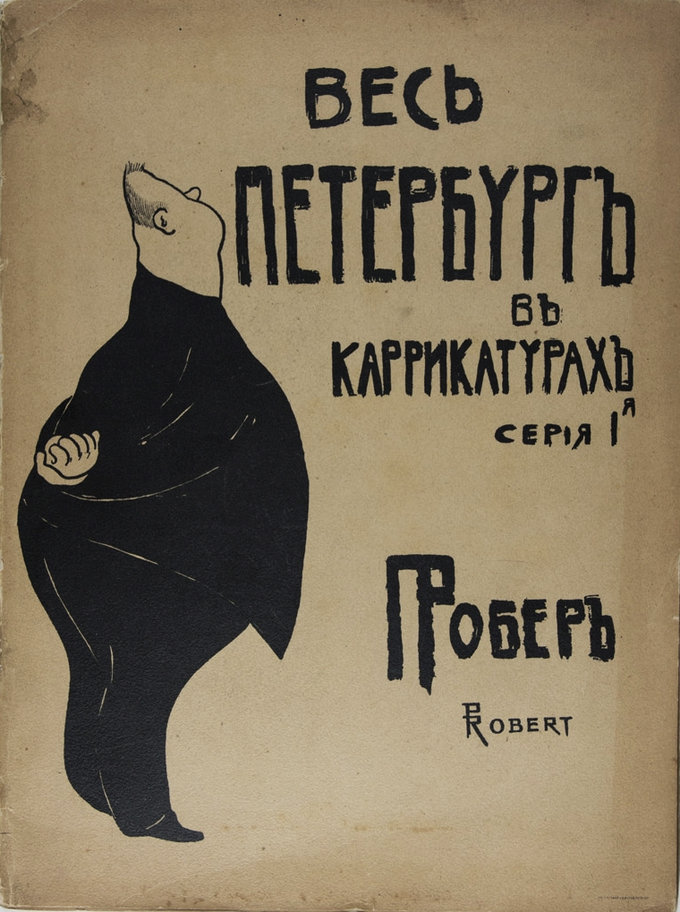 The title page of the album, Robert P. "All Petersburg in cartoons" (St. Petersburg, 1903)